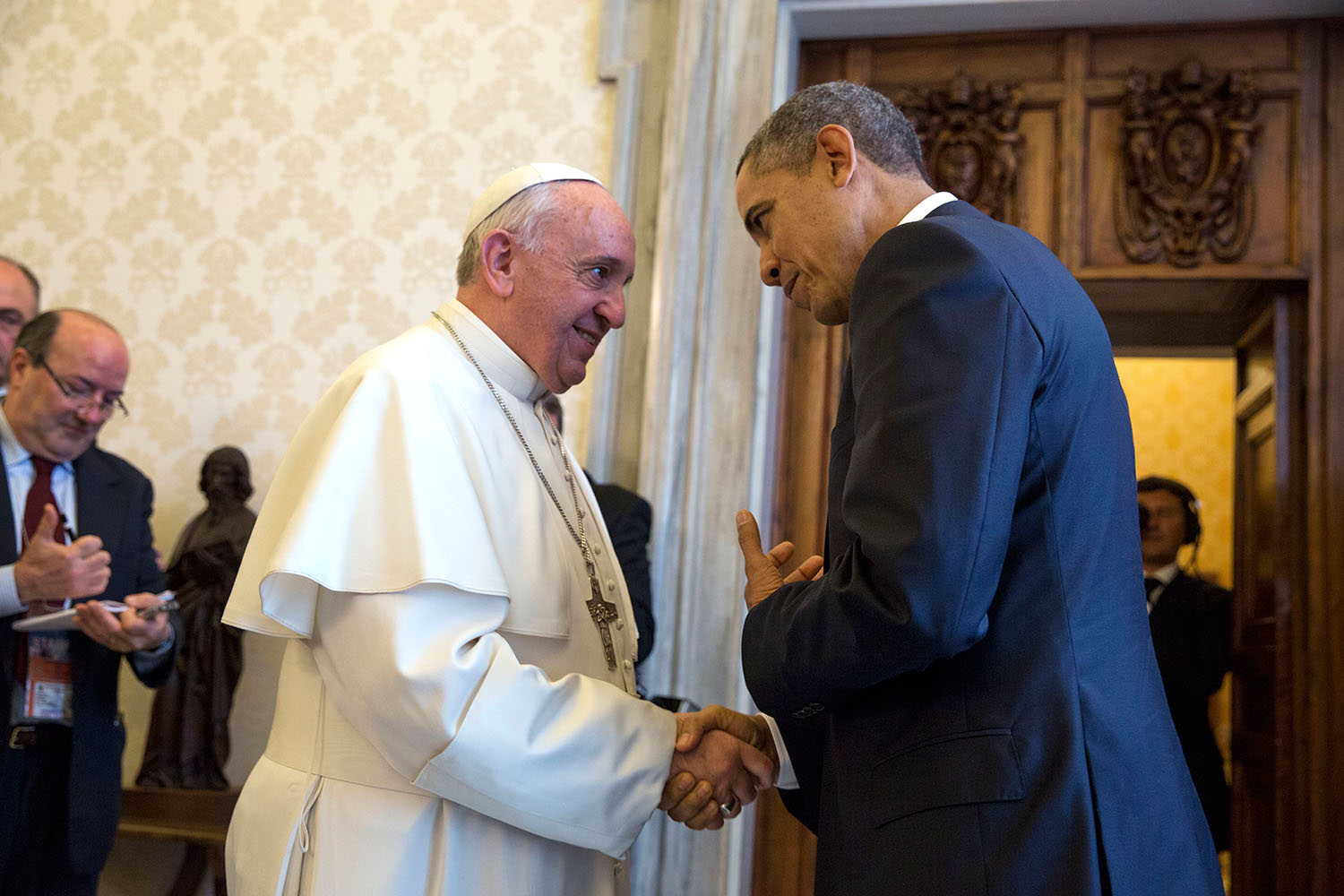 President Barack Obama bids farewell to Pope Francis following a private audience at the Vatican, March 27, 2014. (Official White House Photo by Pete Souza) This official White House photograph is in the public domain from a copyright perspective, so while restrictions such as personality or privacy rights may apply, in general, manipulations are allowed.